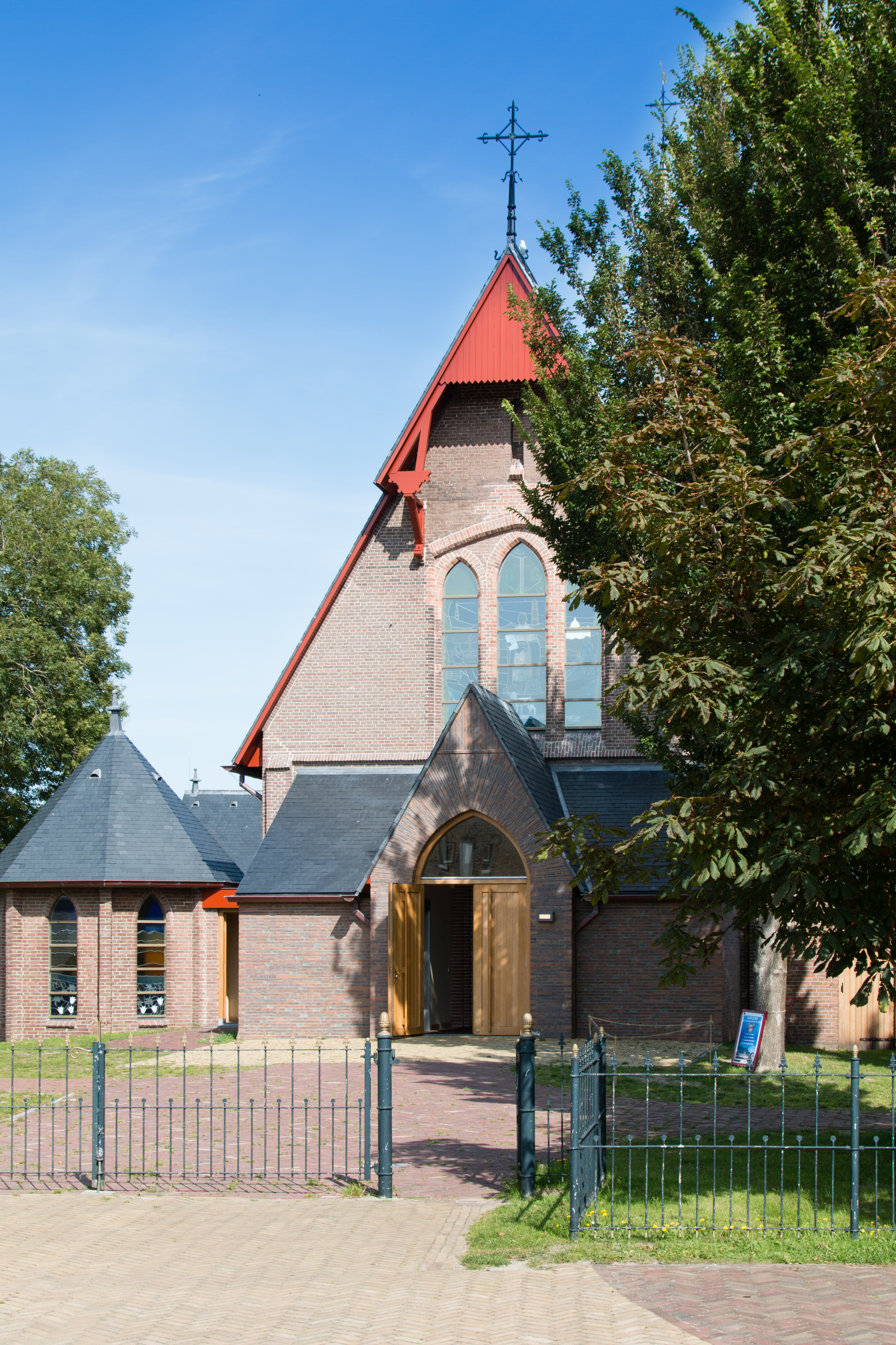 De voorgevel van de Sint-Clemenskerk in Nes op Ameland.